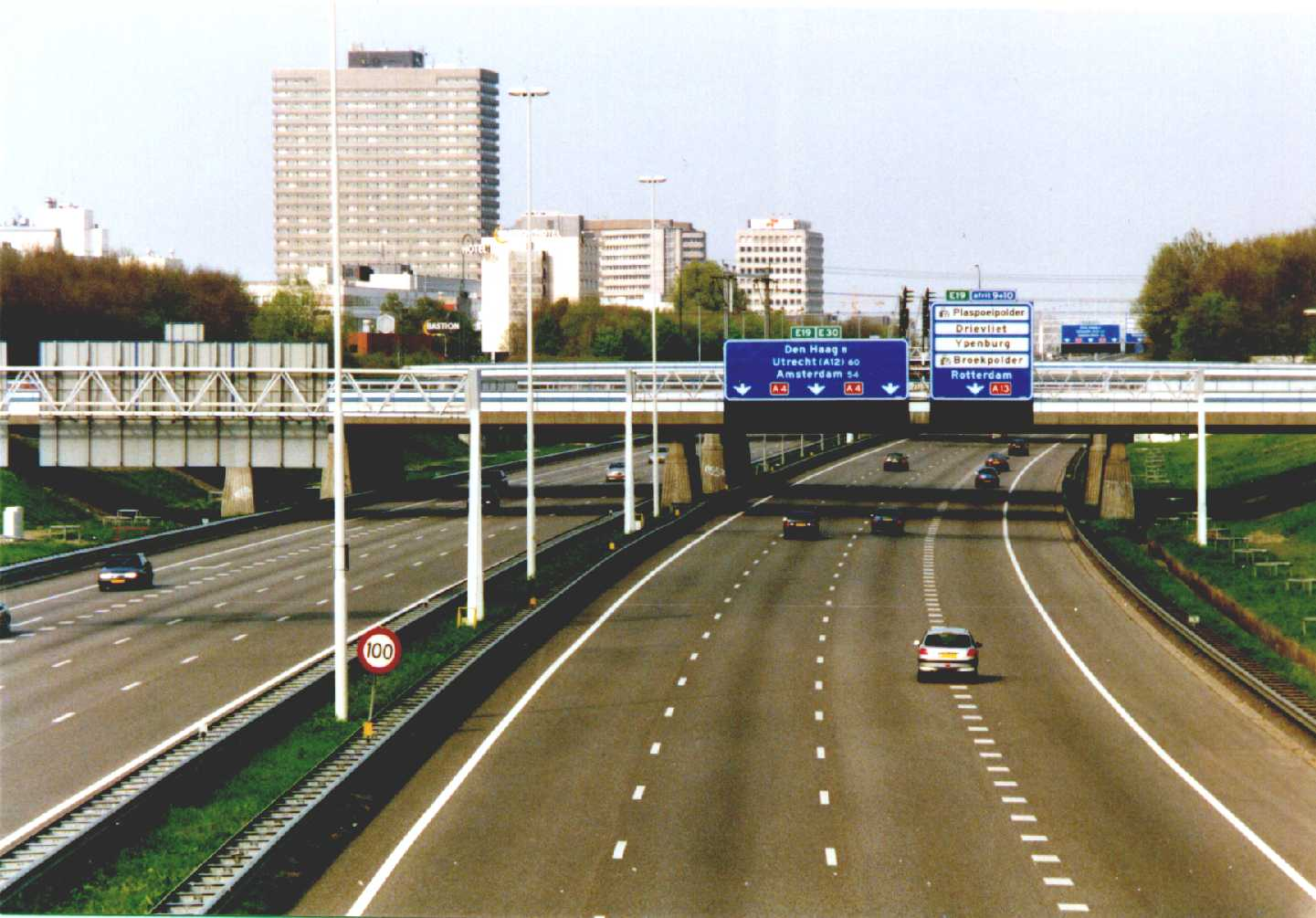 A4 motorway, Rijswijk, the Netherlands